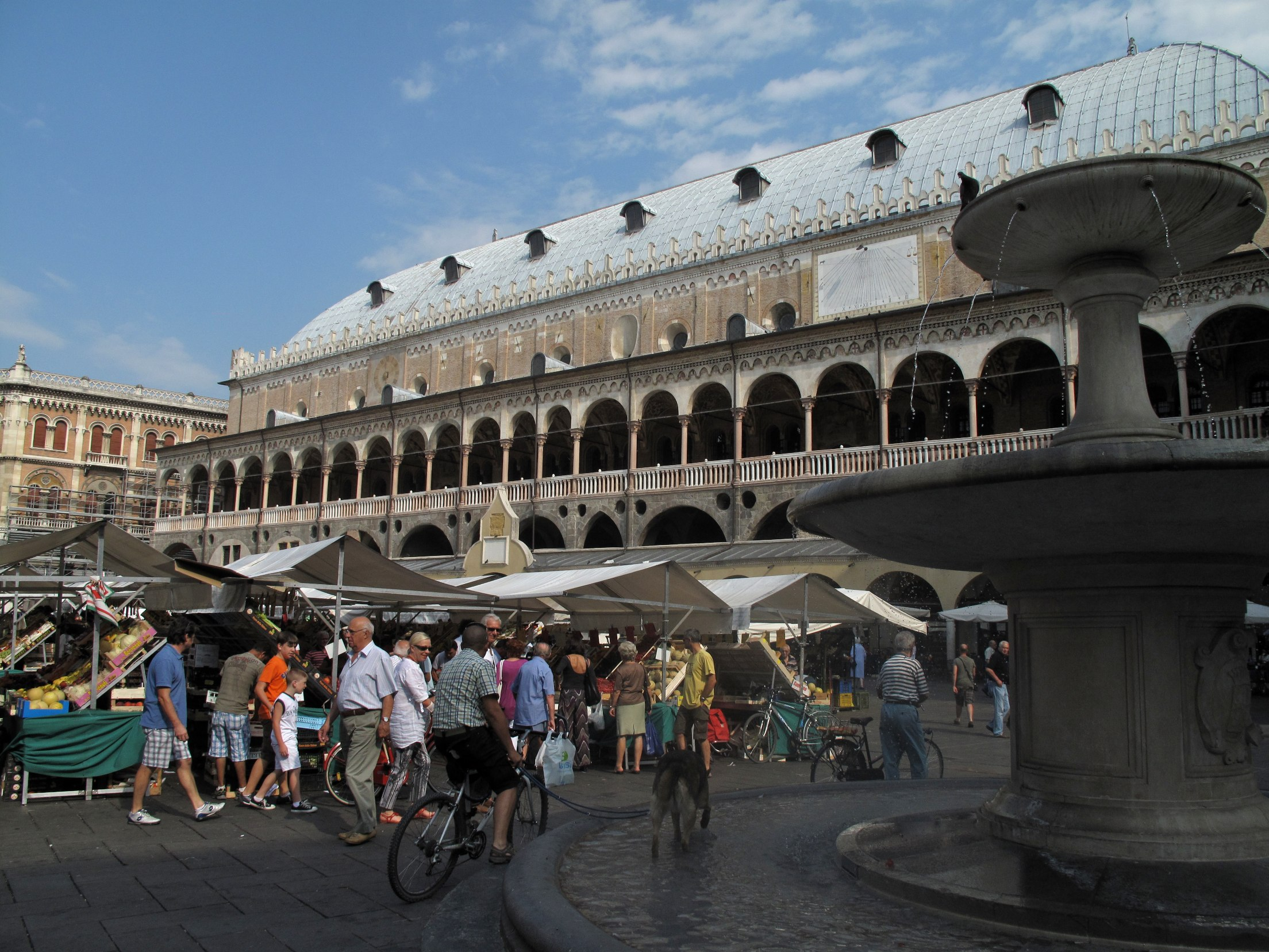 Market in Piazza delle Erbe, Padua. In background, Palazzo della Ragione